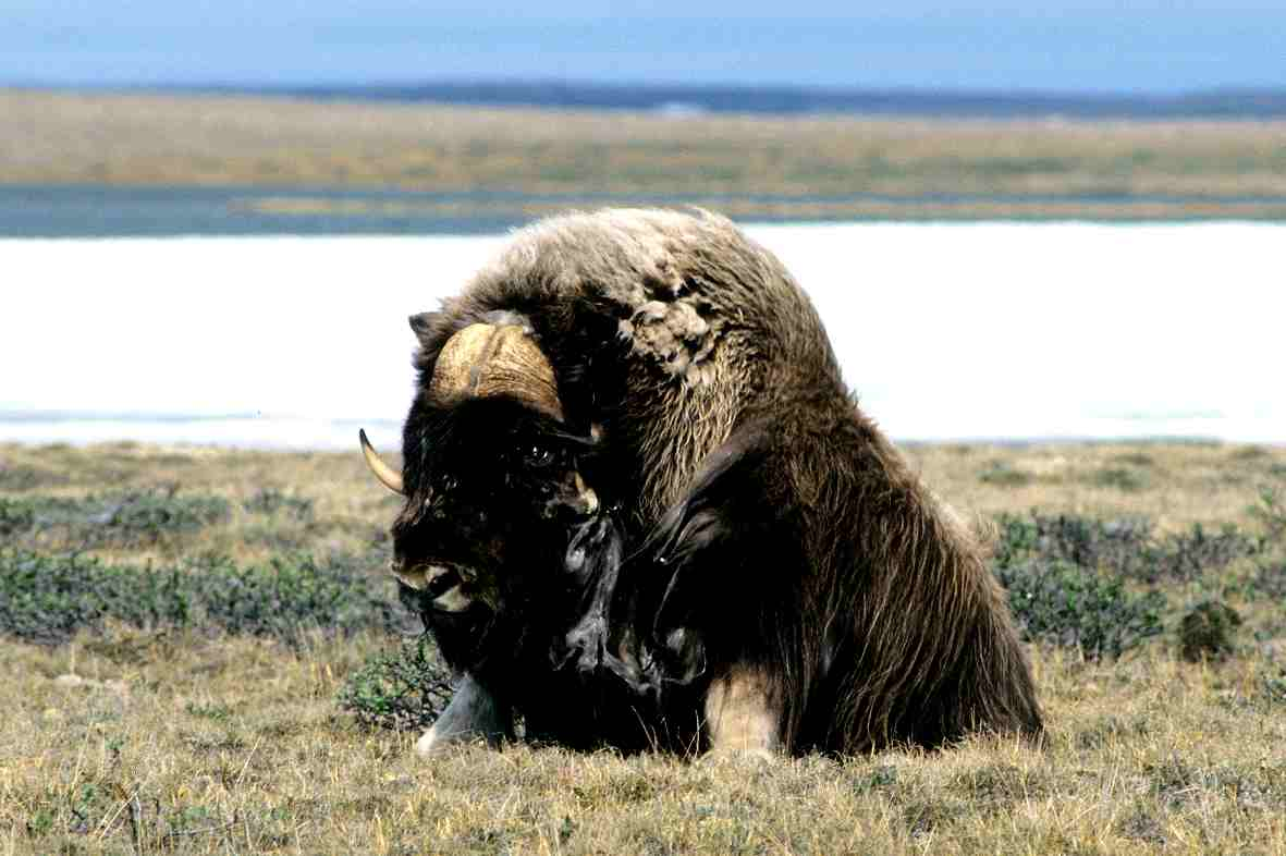 Muskox on Victoria Island, Nunavut Territory, Canada